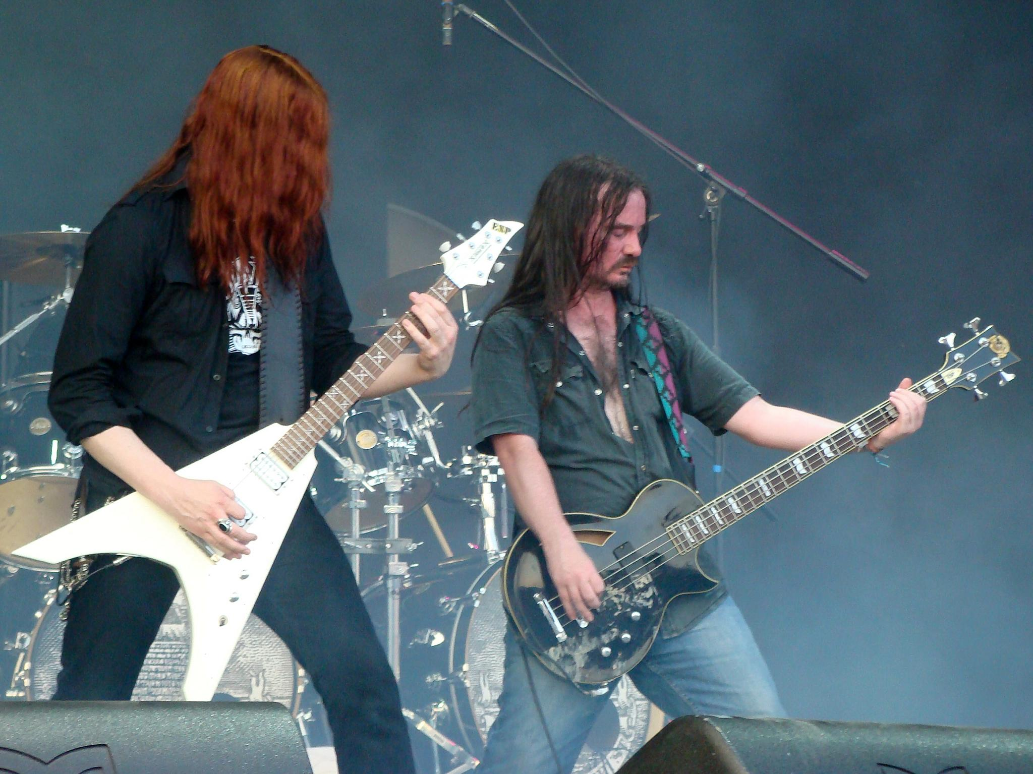 Carcass at Gods of Metal festival in Bologna, Italy.